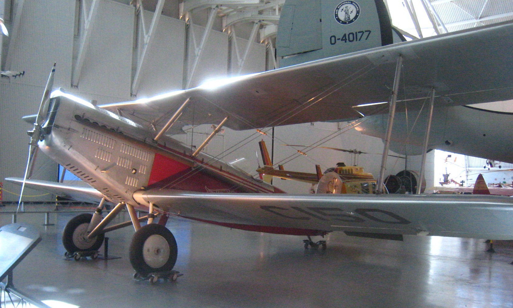 Douglas M2